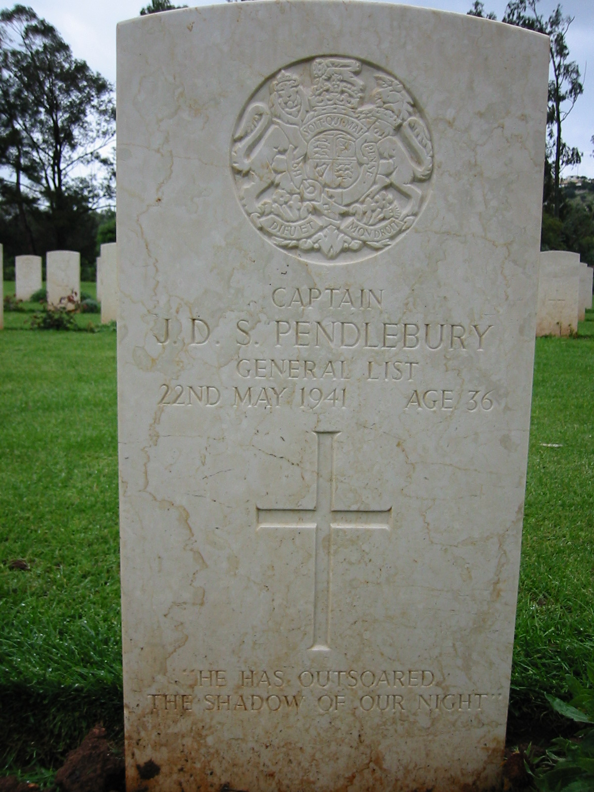 Grave of John Pendlebury